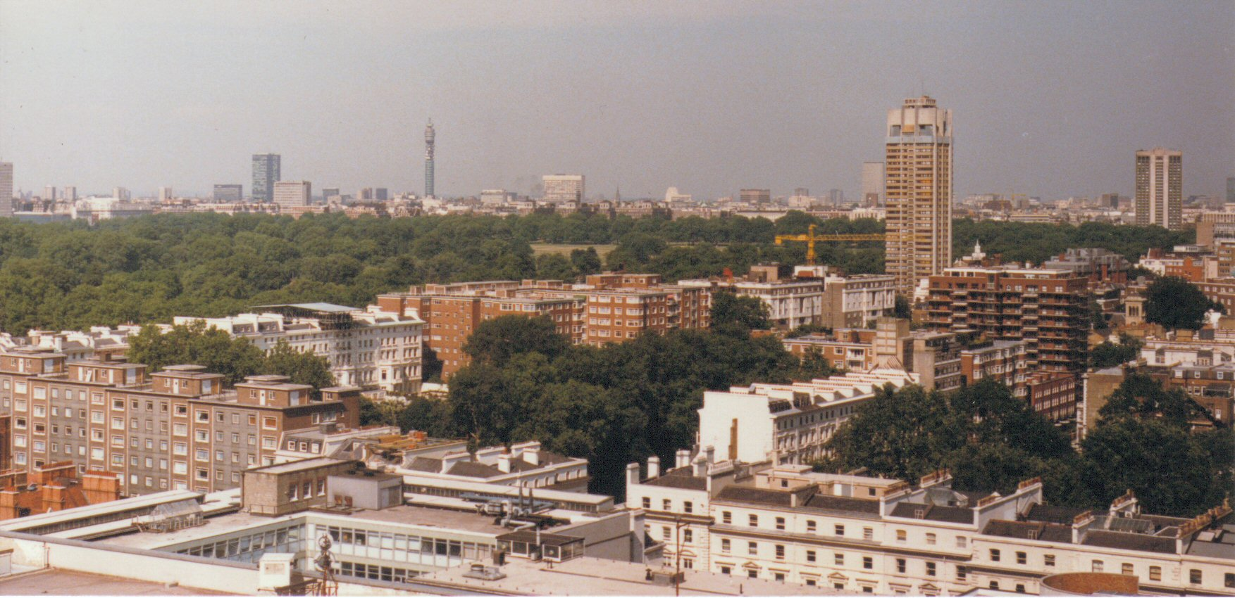 Panorama of London, UK, looking north and east from Albert Hall across Hyde park. Taken by contributor 1986.